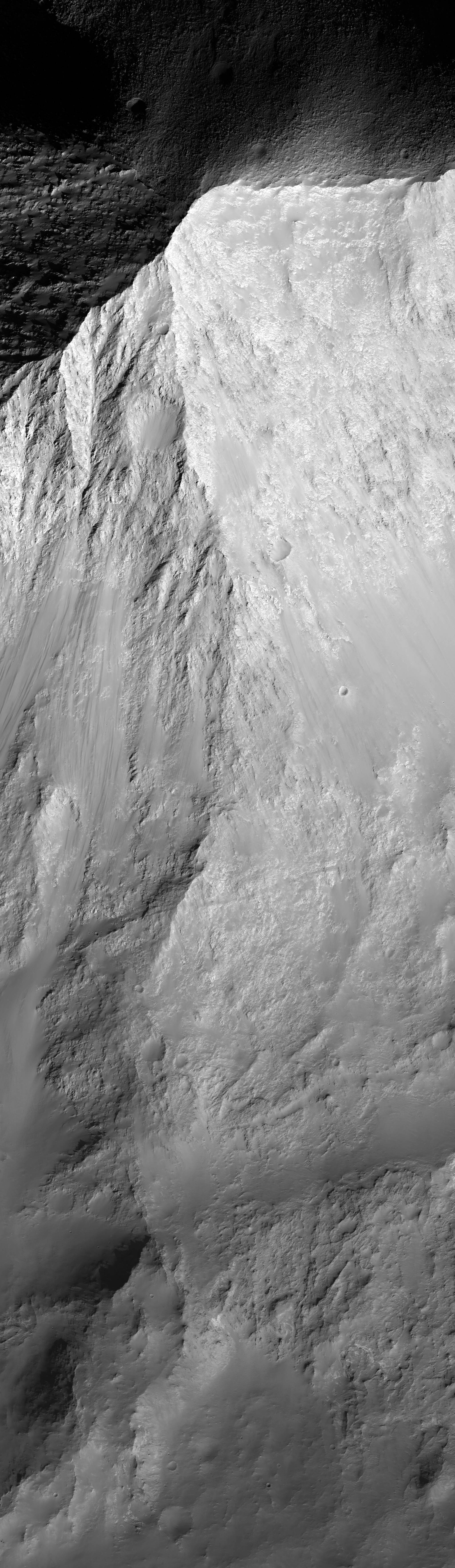 Northern face of Anseris Mons from HiRISE